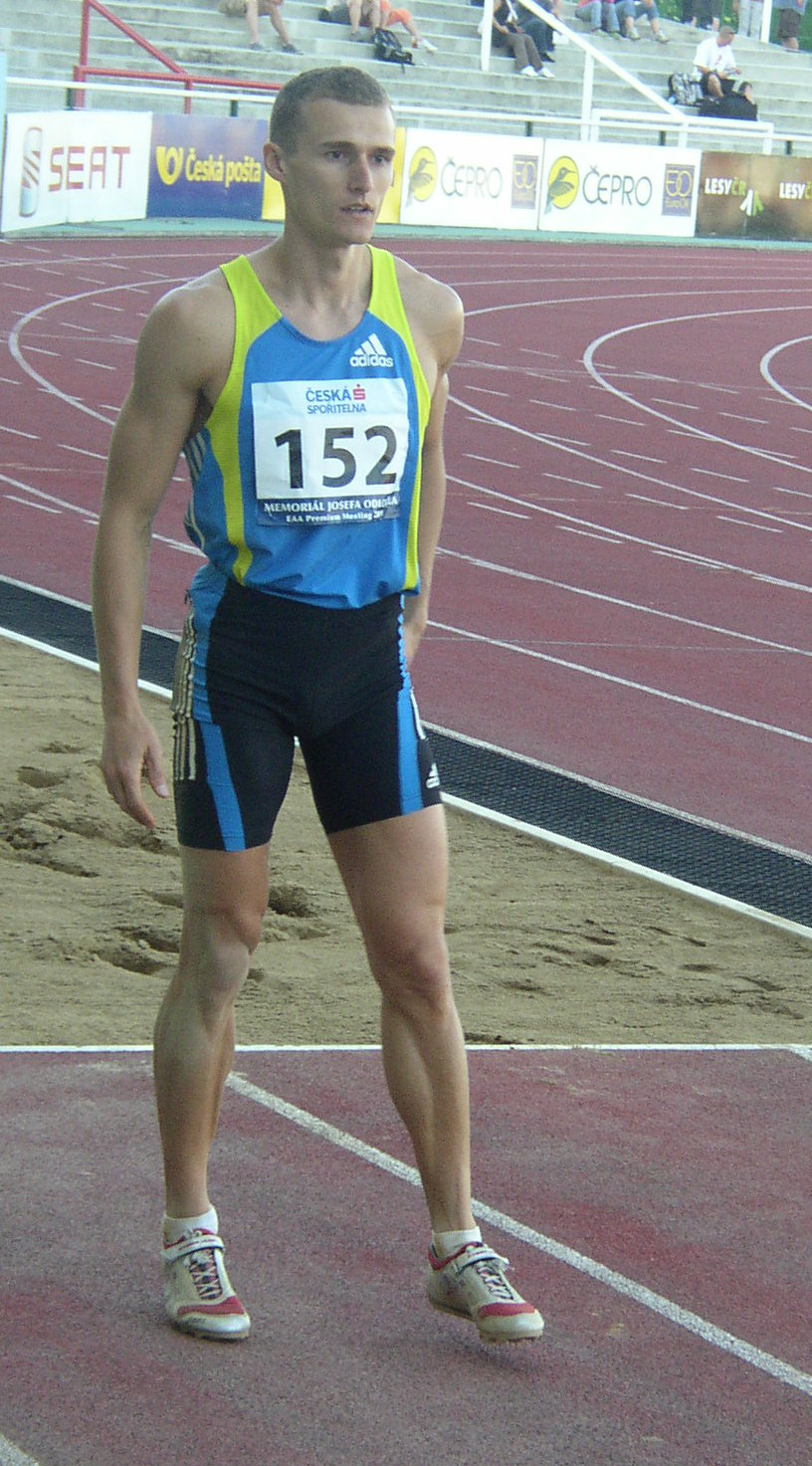 Athlete Marcin Starzak of Poland preparing for his attempt in long jump at 17th edition of the Josef Odložil Memorial (EAA Premium Meeting, Na Julisce Stadium, Prague, Czech Republic, 14 June 2010). Starzak ranked sixth in the competition with 7.68 m mark.